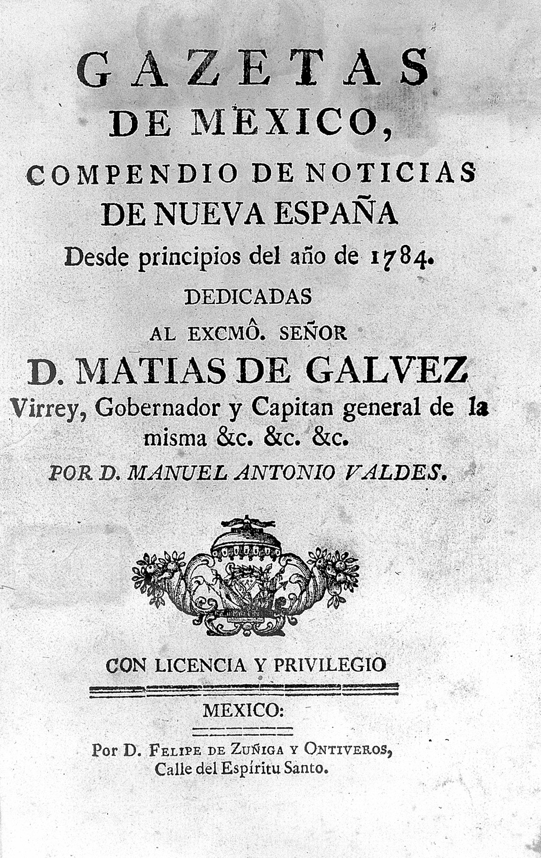 Title page Rare Books